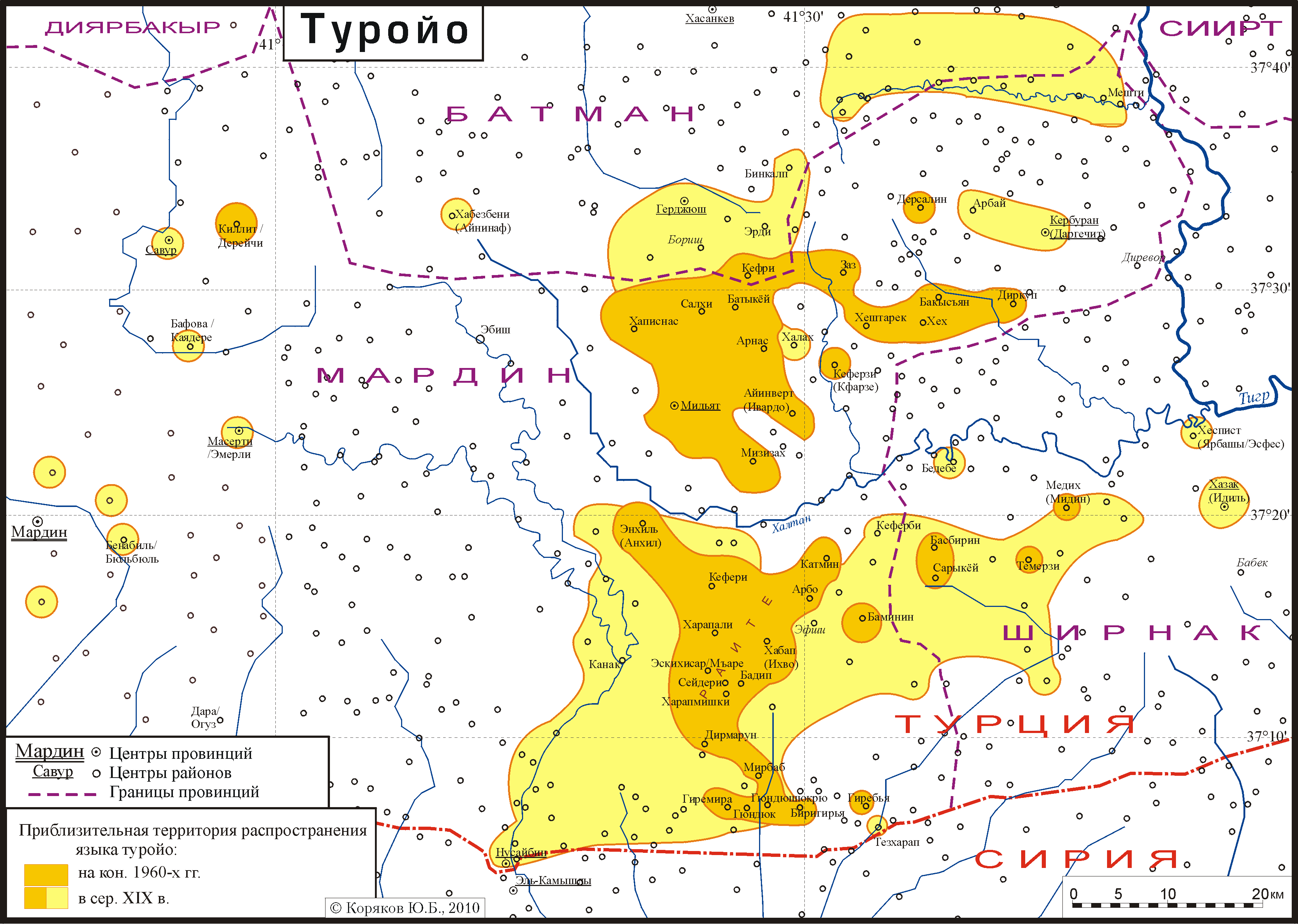 Map of Turoyo language area. Orange - 1960s, Yellow - mid 19 c.